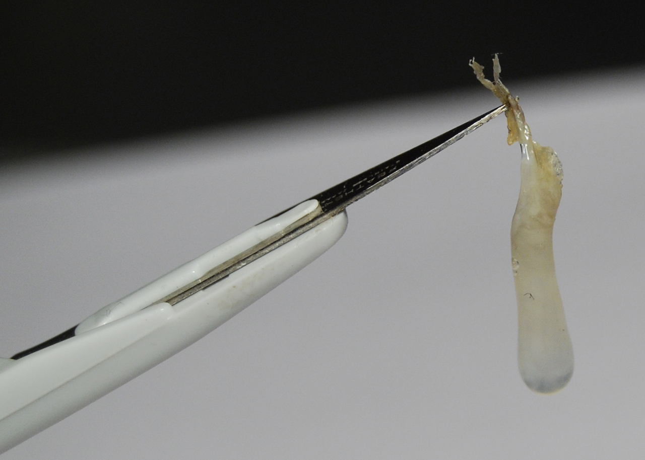 A bogey (Dried nasal mucus).